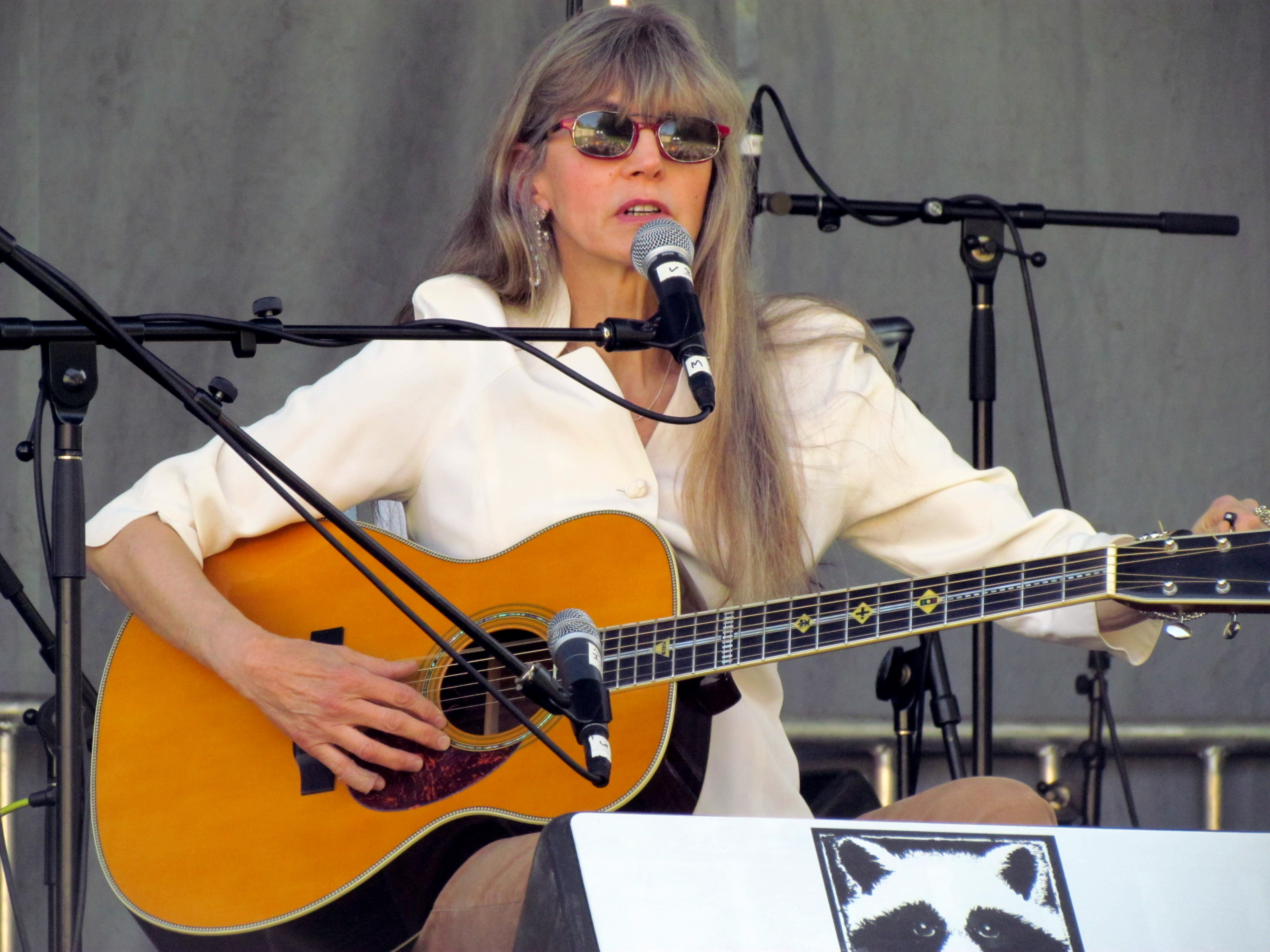 American blues guitarist and singer Rory Block at the MerleFest 2014, Wilkesboro, North Carolina